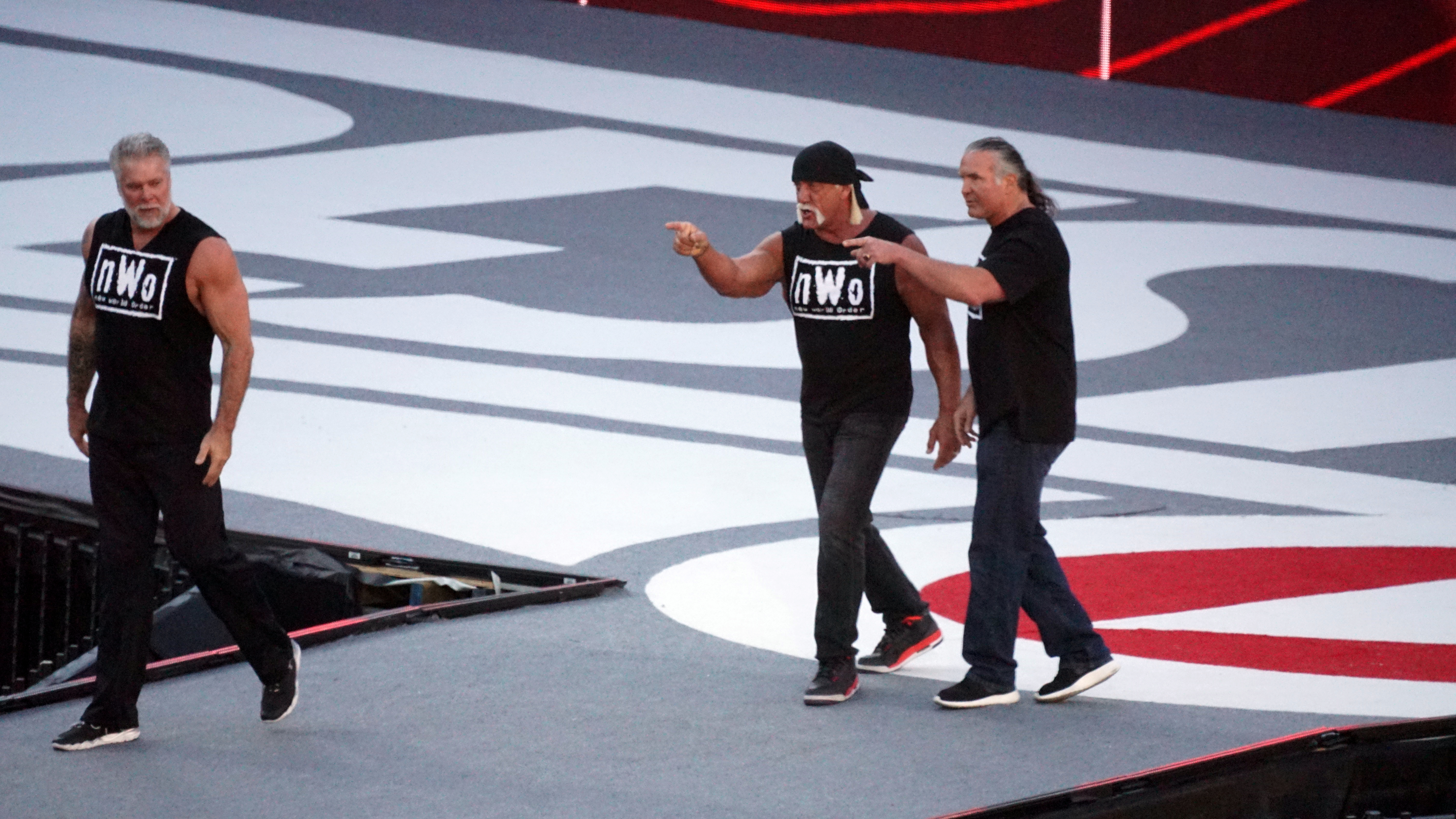 The NWO (Kevin Nash, left, Hulk Hogan, center, and Scott Hall, right) at WrestleMania 31 in March 2015.